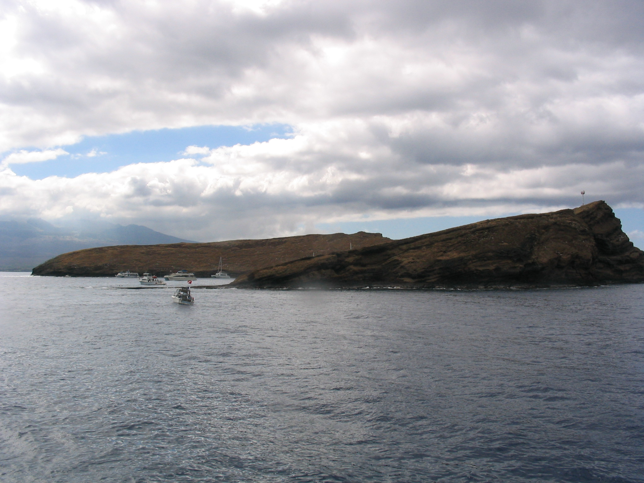 Molokini, a small island off Maui, Hawaii, popular for snorkeling.Molokini